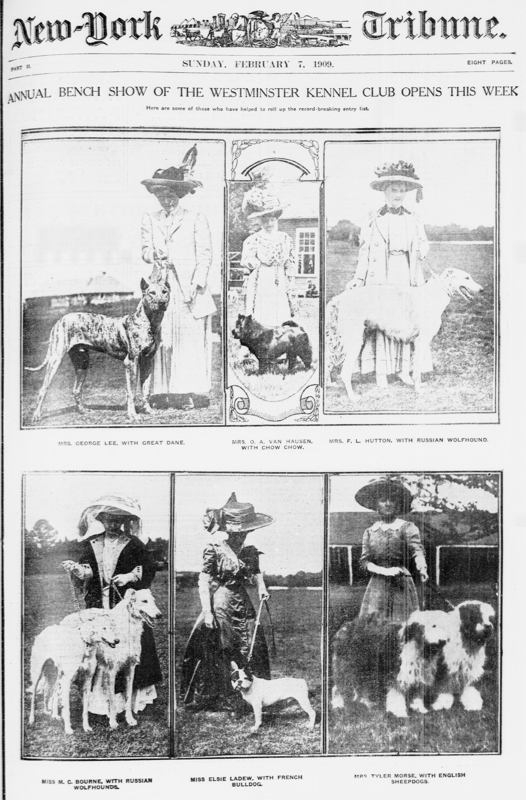 New-York tribune. (New York [N.Y.]) 1866-1924 February 7, 1909, Image 15 Notes: Cover, illustrated supplement. Format: Newspaper page, from microfilm Rights Info: No known restrictions on reproduction. Repository: Library of Congress, Serial and Government Publications Division, Washington, D.C. 20540 USA. Part Of: Chronicling America (Library of Congress) (DLC) - Persistent URL: More information about the Chronicling America Web site is available at